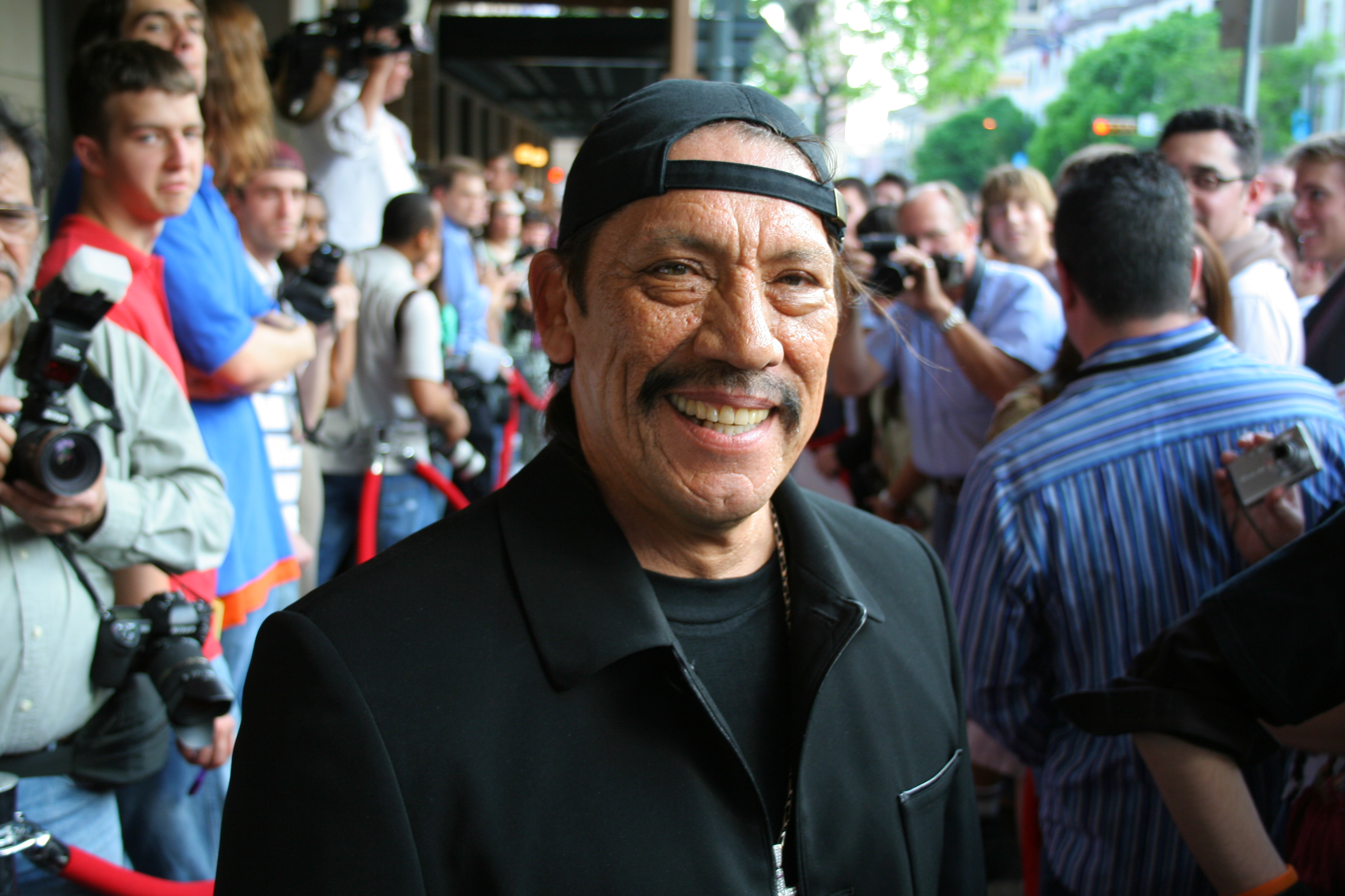 Mexican-American actor Danny Trejo at the premiere of Grindhouse, Austin, Texas.